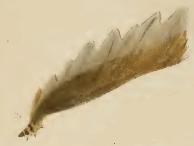 Stainton’s Natural History of the Tineina (1855–1873): Coleophora milvipennis larval case